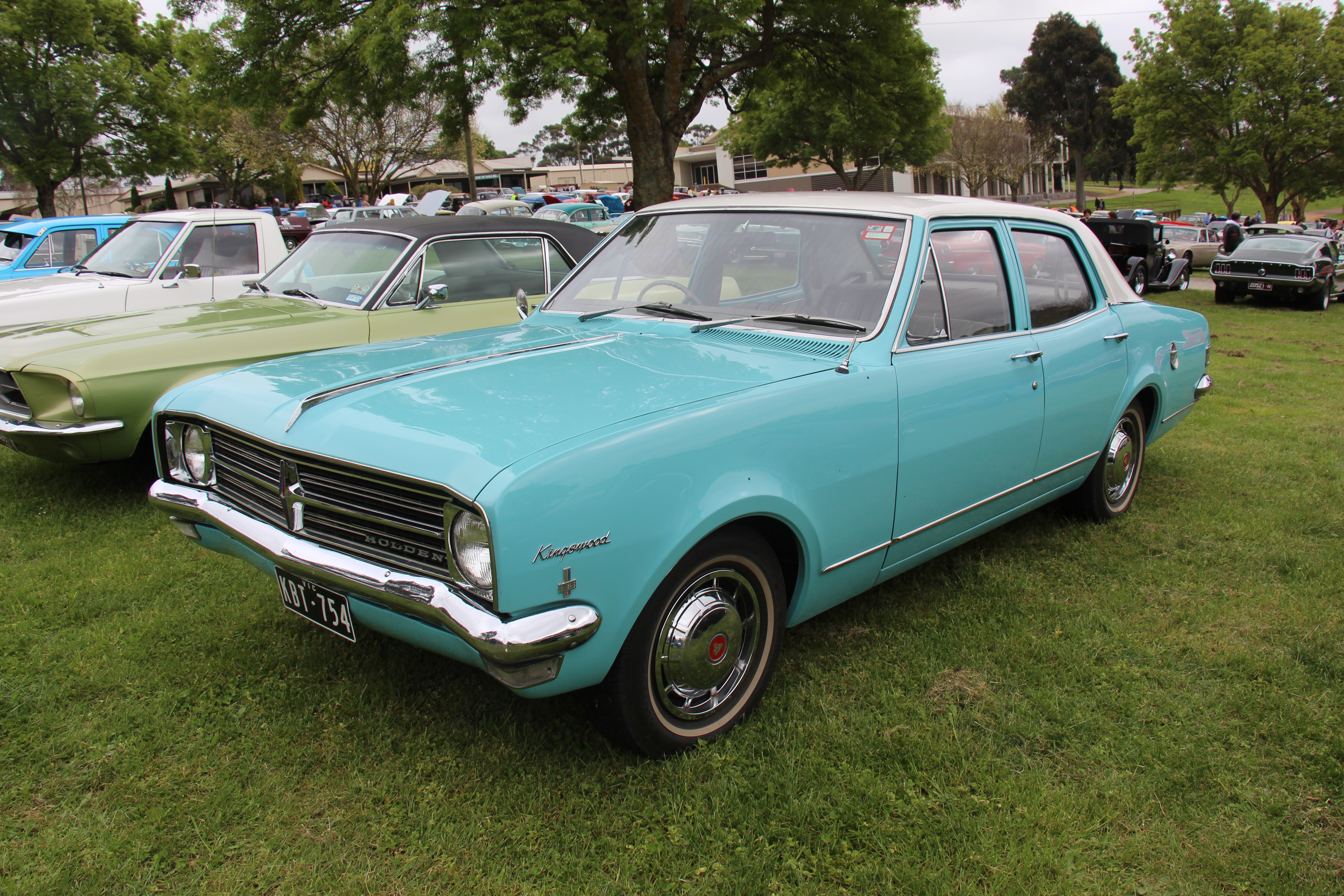 Holden HK Kingswood